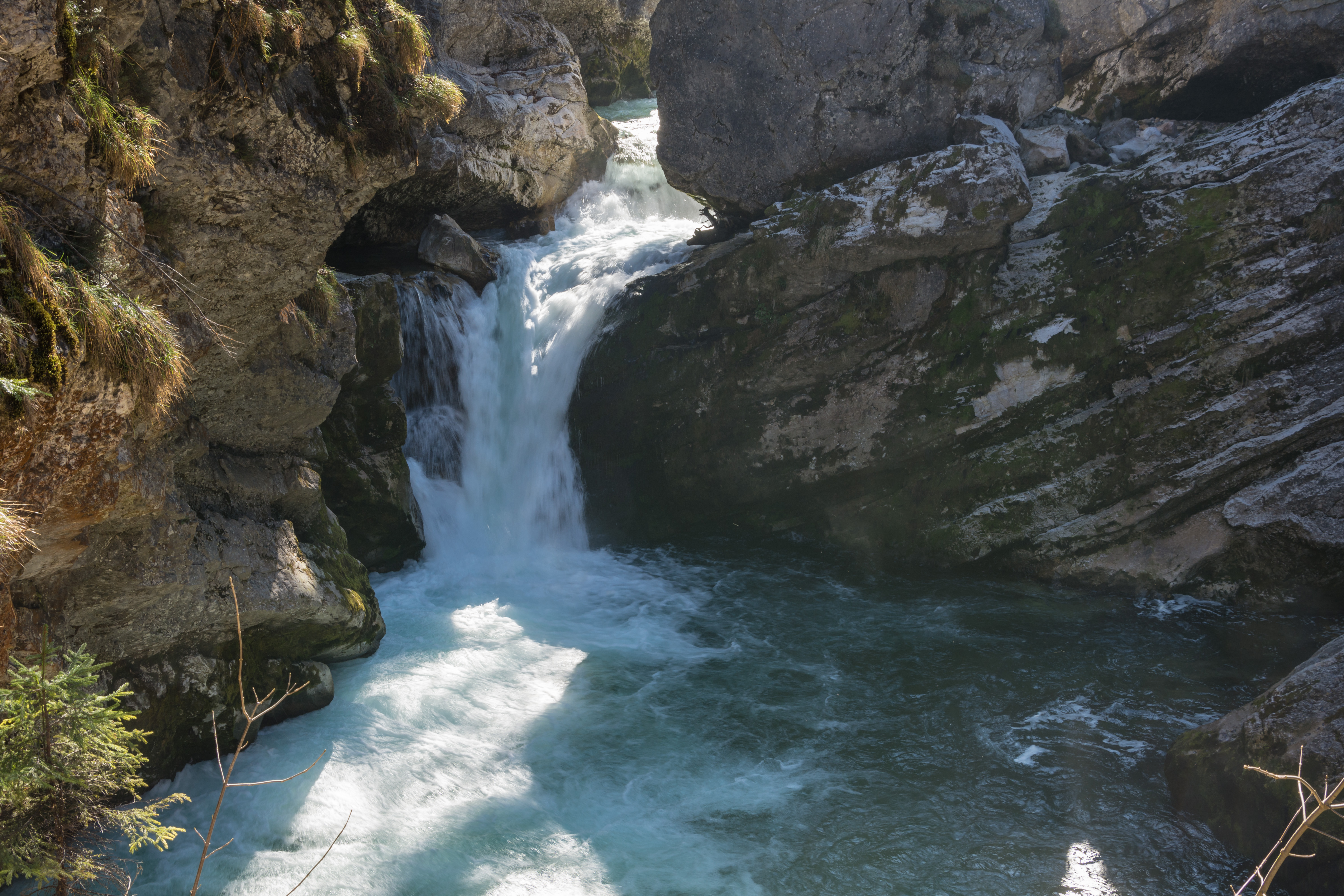 Near Hinterstoder the young Steyr is constraint by rocks and then it falls into the socalled Strumboding.